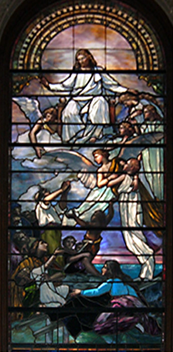 This is a stained glass window inside depicting the ascension of , after whom Stanford University is named, to Heaven. The window is made by Frederick S. Lamb (1863-1928), who based his work on oil paintings by Antonio Paoletti (1834-1912). The windows were permanently installed in 1903; hence they are in the public domain (PD-US). Hall, Willis (1917) "The Windows" in Stanford Memorial Church: The Mosaics, the Windows, the Inscriptions, California, United States: Times Publishing Company, pp. 35–38 Retrieved on 28 July 2009.